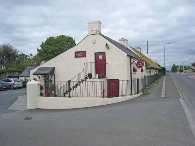 The Old Post Office at Lisbane Now serving a new purpose as a busy tea rooms on the busy A22 Killyleagh to Comber road.